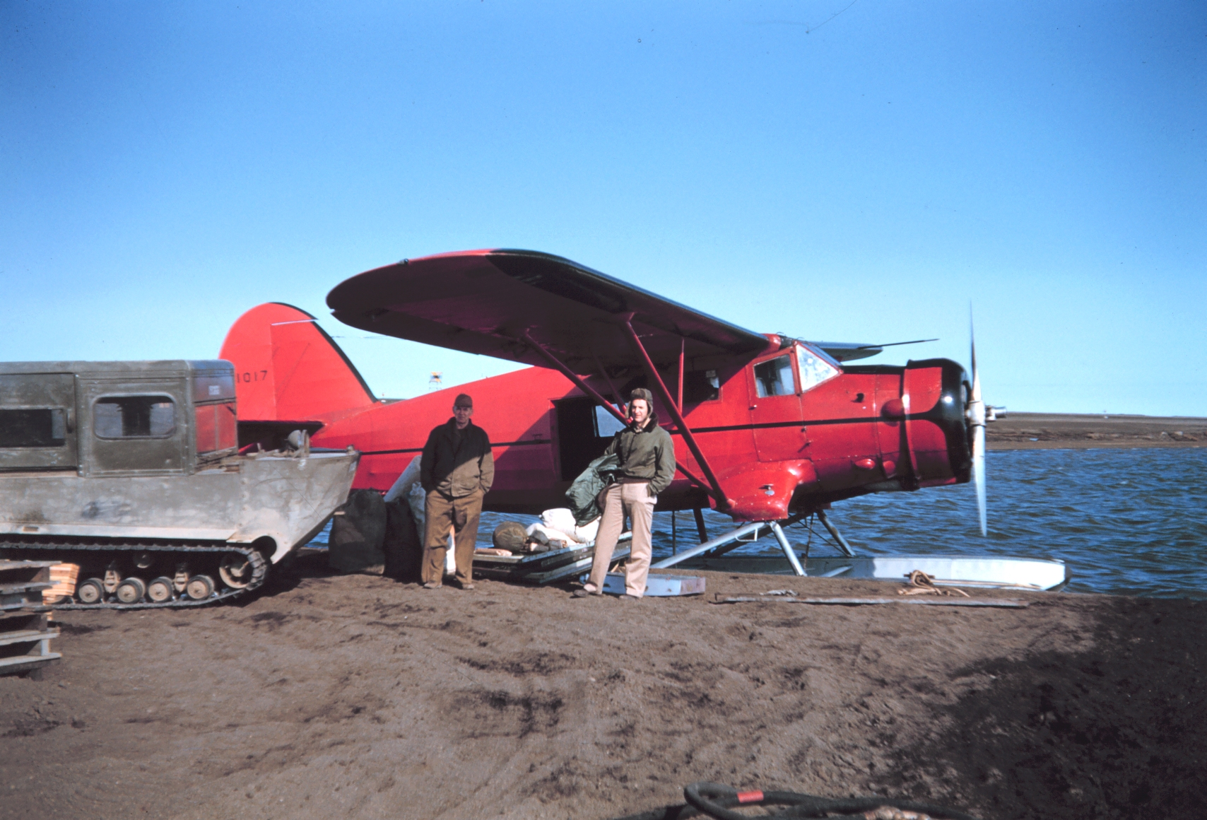 Unloading a float plane - Ensign Eugene W. Richards on right. Point Lay, Alaska North Slope, Summer 1950.